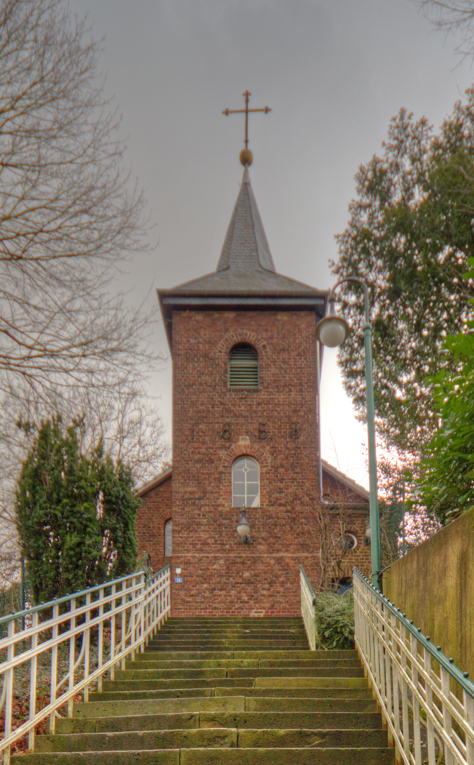 Evangelist church „On the Blue Hill“ in Leverkusen-Schlebusch